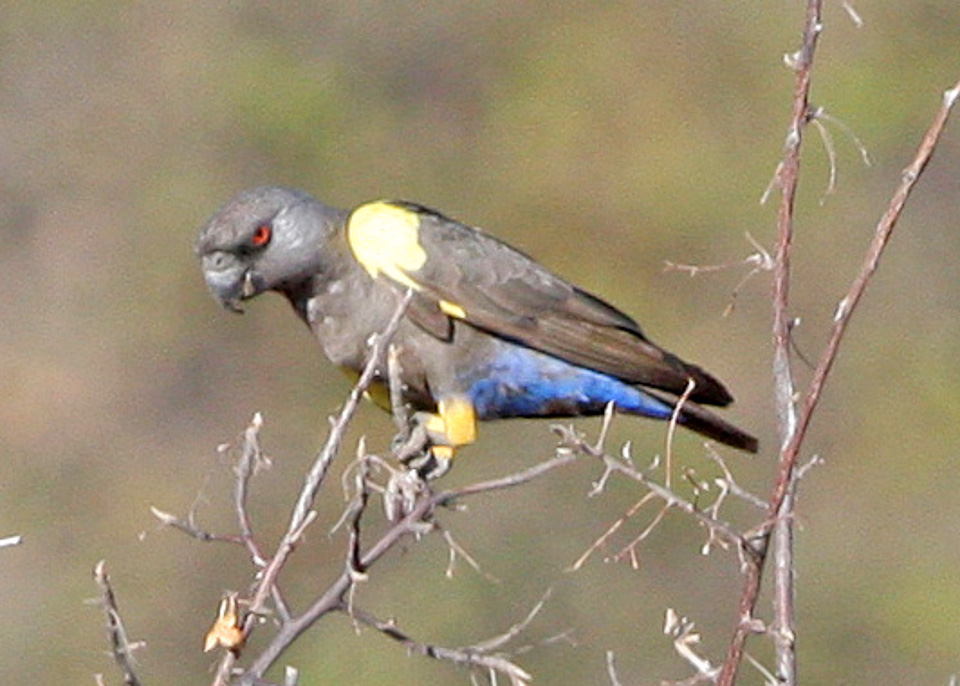 An adult female Rüppell's Parrot near Hobatere Lodge, Kamanjab, Namibia.